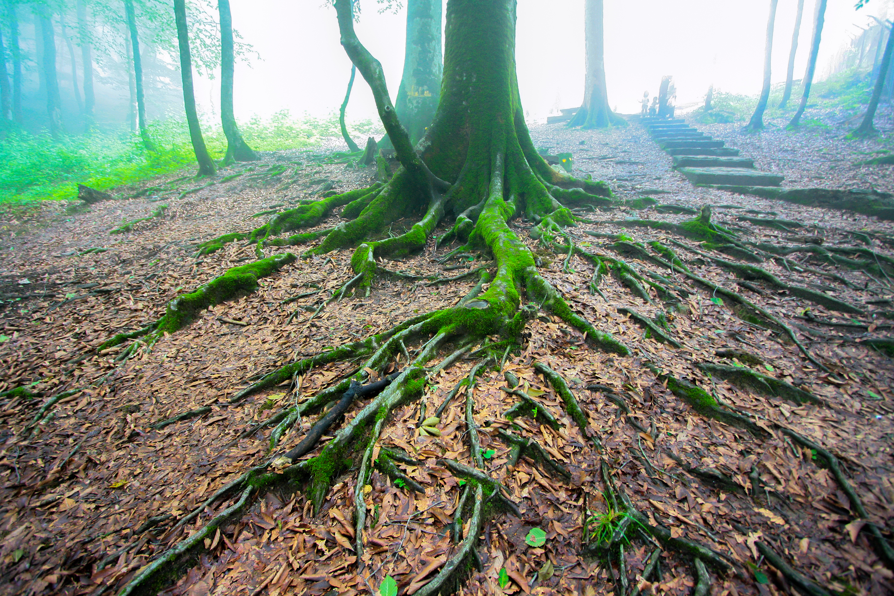 Shahrak-e Namak Abrud is a touristic village and has an aerial tramway which starts at the sea level near the shores of the Caspian Sea and ends on the top of the Alborz heights crossing dense forest area of northern Iran. There are numerous villa cities around it which form a vacation region for the people of Tehran.